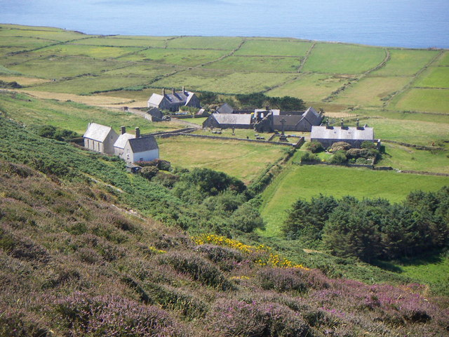 Capel Ynys Enlli. The chapel and chapel house are on the left at the foot of the hill. The grave yard and the remains of St. Mary's Abbey are nearby.